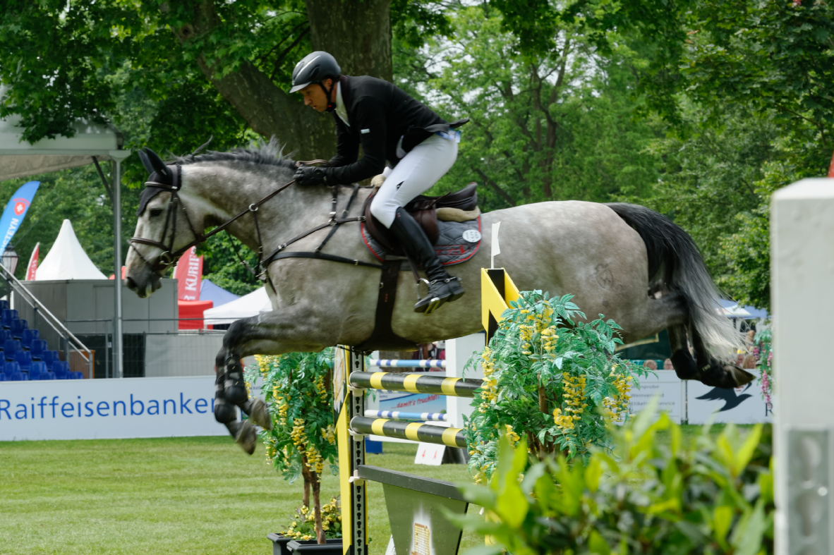 CSIYH* int. Springprüfung nach Strafpunkten und Zeit Internationales Pfingstturnier Wiesbaden 2015 The making of this document was supported by the Community-Budget of Wikimedia Germany.